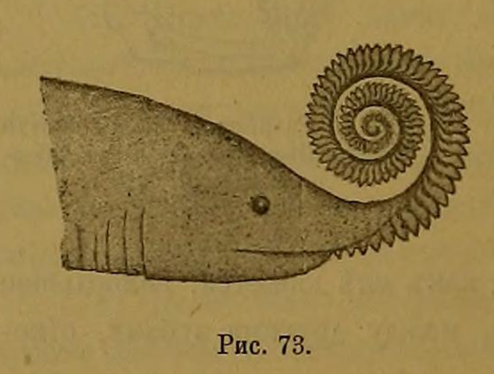 Alexander Karpinsky's 1899 hypothesis of the placement of the tooth whorl on Helicoprion bessonowi.